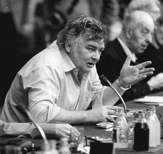 Erik Neutsch in December, 1981